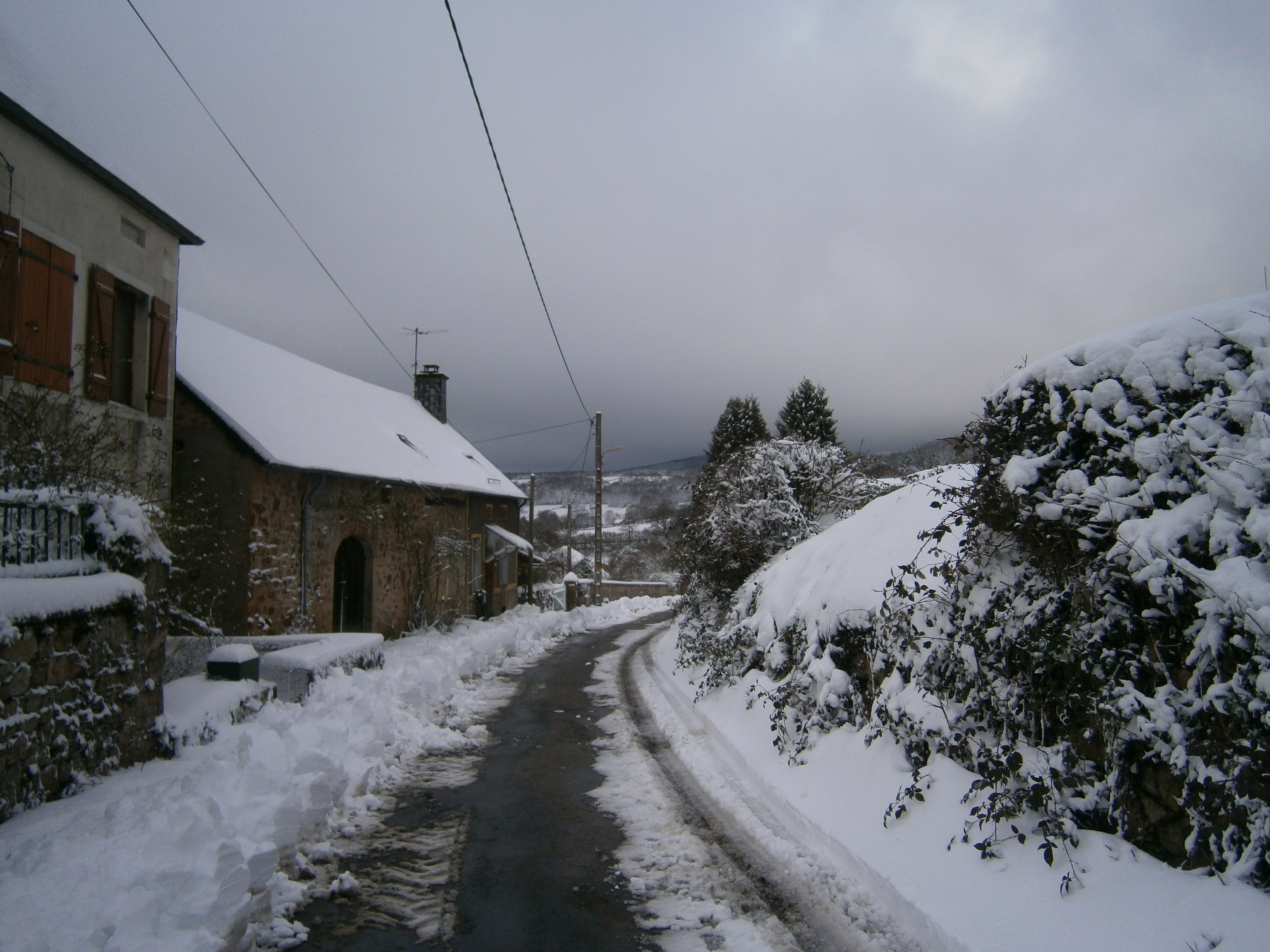 Street of la Cure (Anost), under the snow